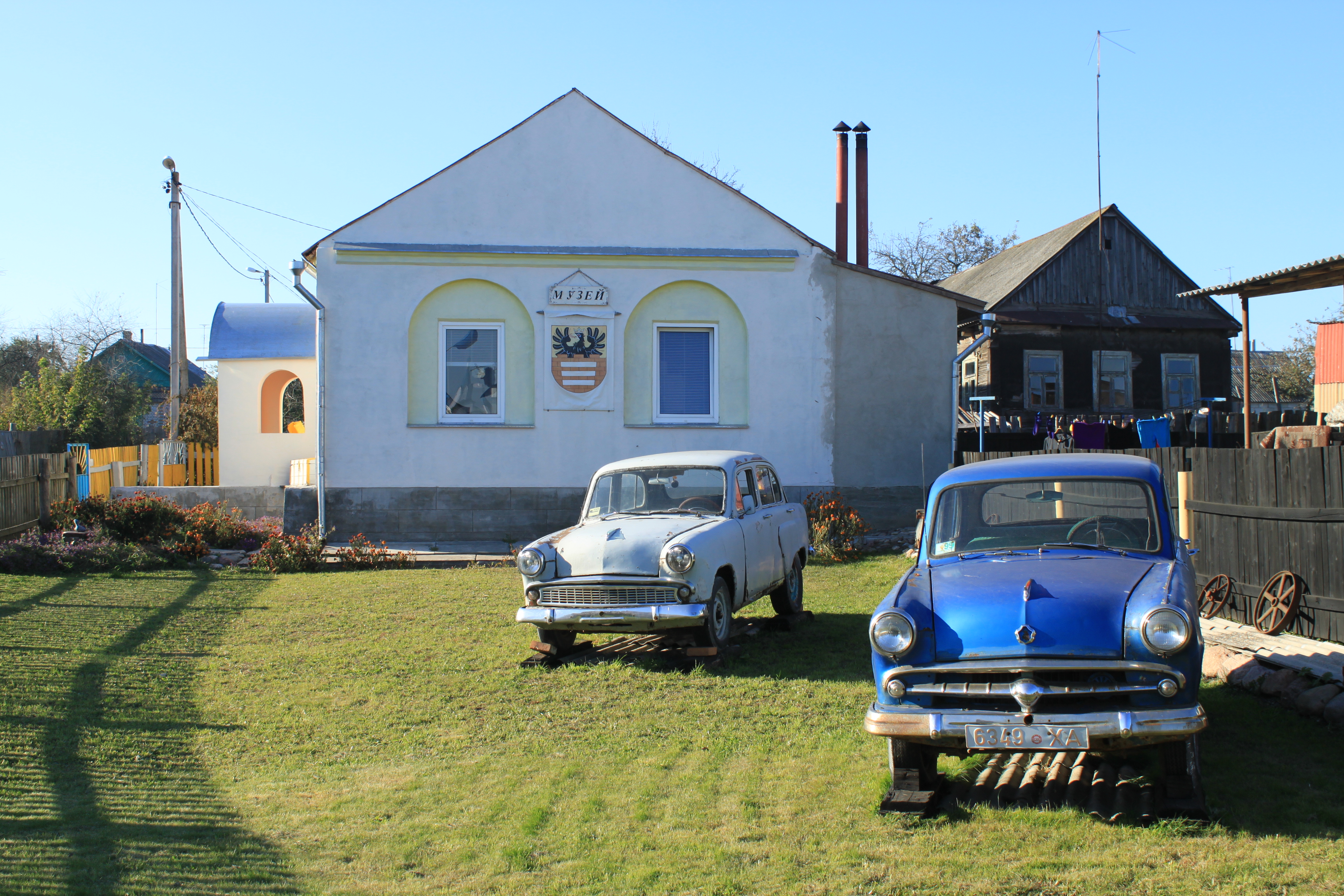 A private museum in Mir, Belarus Беларуская (тарашкевіца): Прыватны краязнаўчы музэй у Міры, Гарадзенская вобласьць, Беларусь